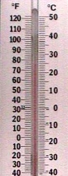 Fahrenheit and Celsius scales